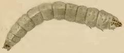 Stainton’s Natural History of the Tineina (1855–1873): Elachista bisulcella